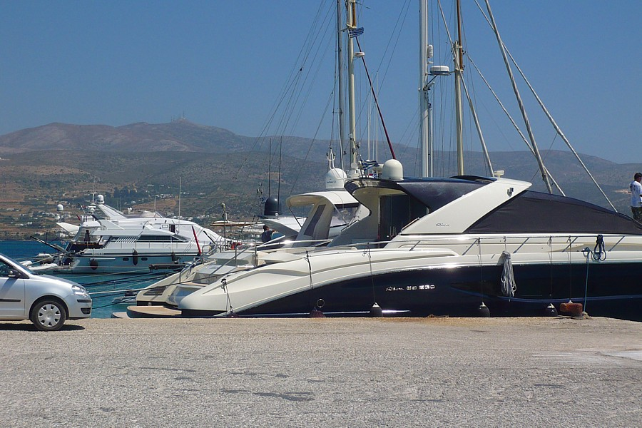 Antiparos boats